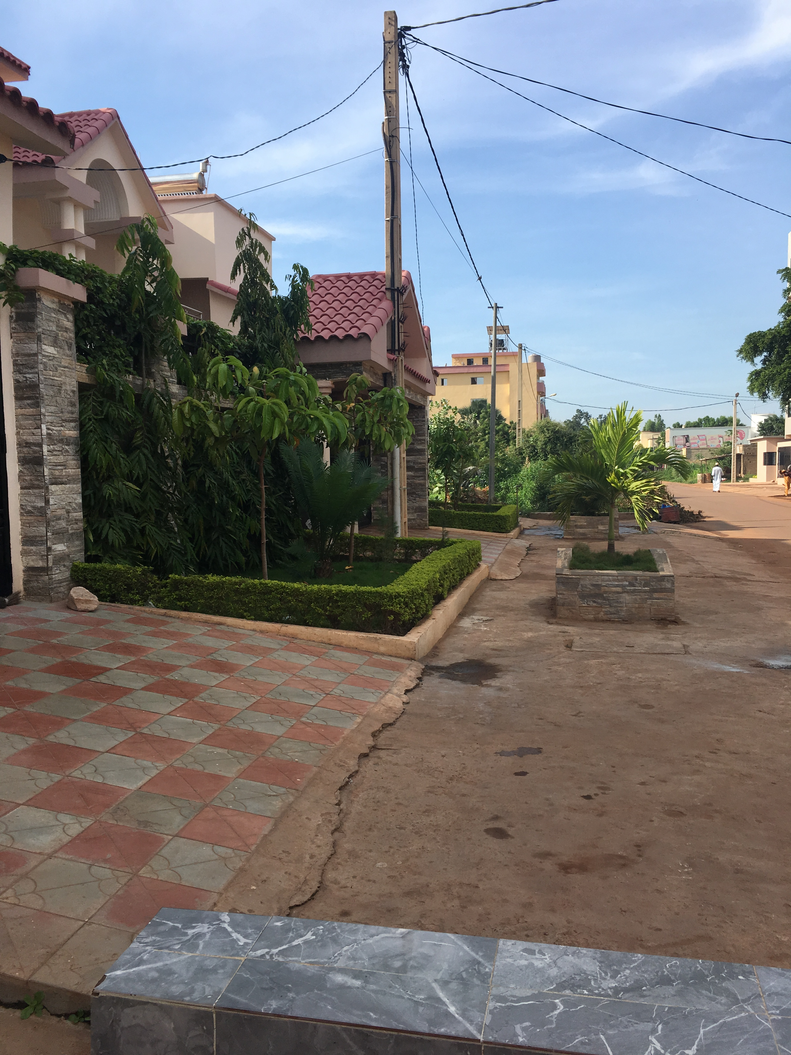 This is an image with the theme "Africa on the Move or Transport" from: Mali